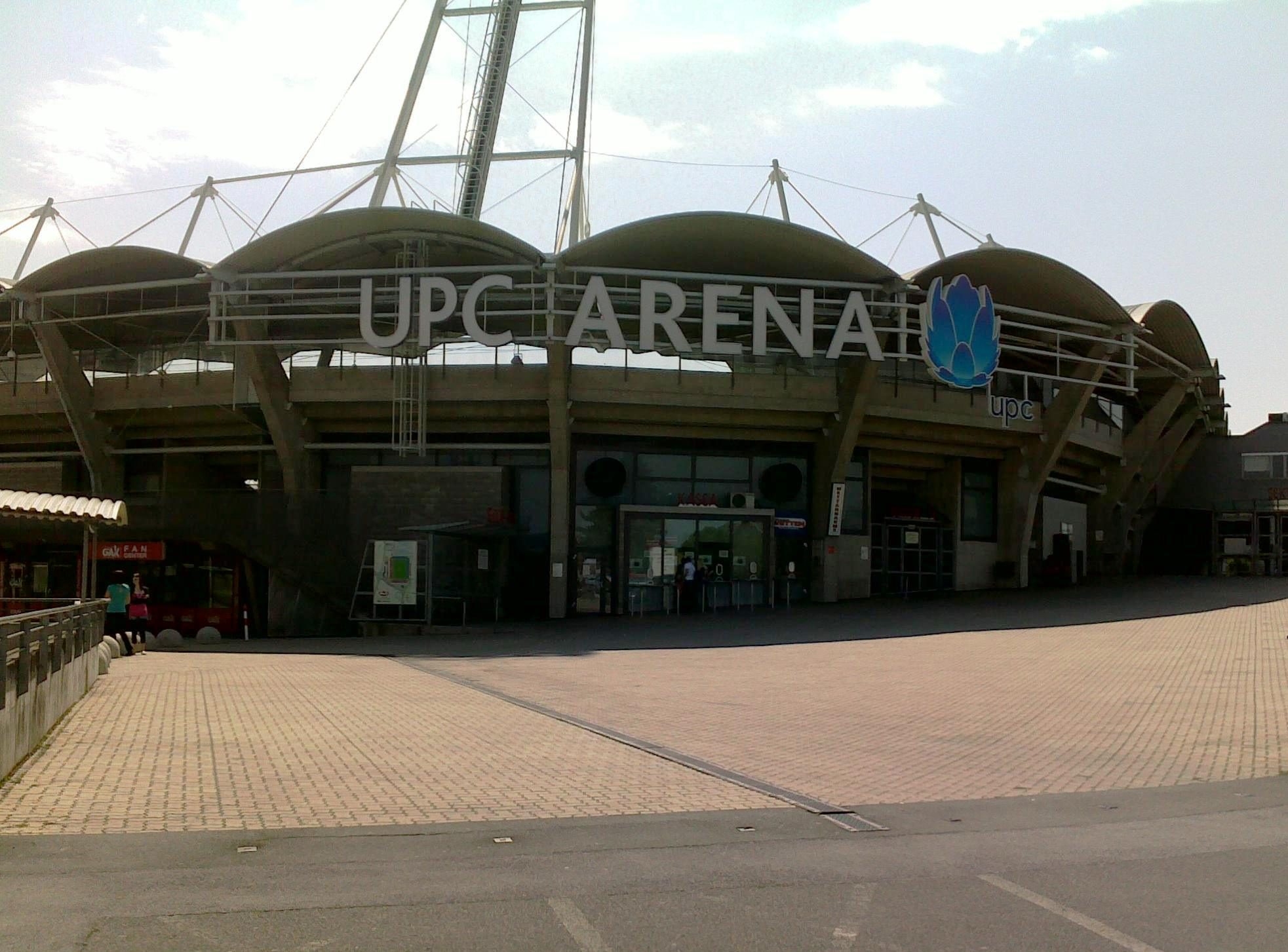 North-West-Side of the UPC-Arena in Graz (Austria)